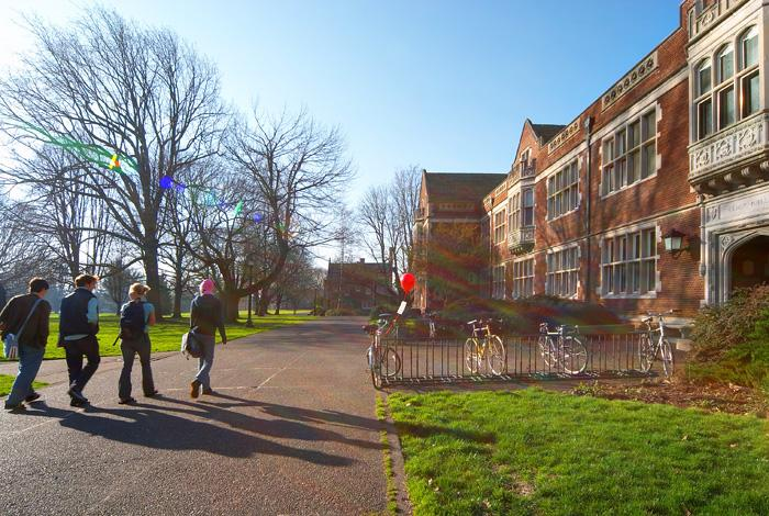 Reed College exterior